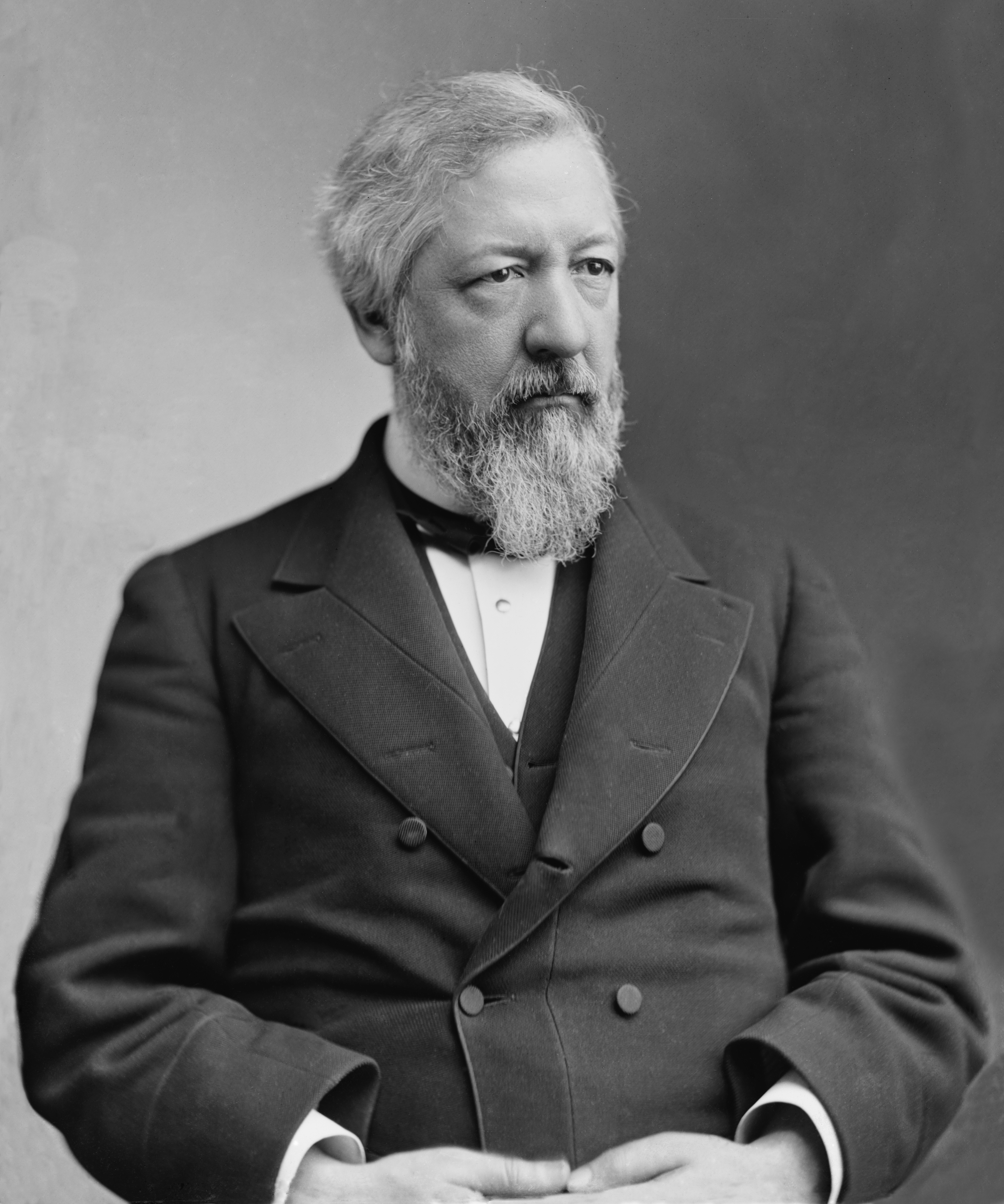 James G. Blaine. Library of Congress description: "Blaine, Hon. James G. of Maine, Secty of State"